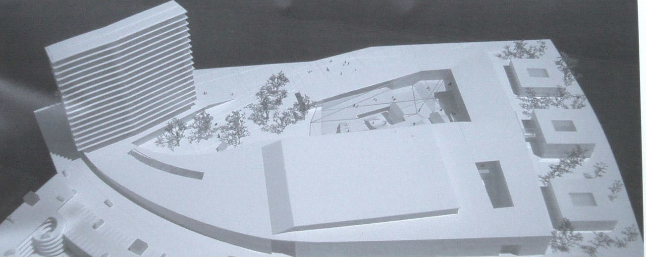 Model (sketch) of the planned “United Nations Congress Center” (UNCC) in Bonn. It's an extension of the International Congress Center Bundeshaus Bonn.